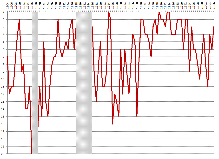 Graph of Aberdeen's position history in the SPL. Created with Excel and Paint.